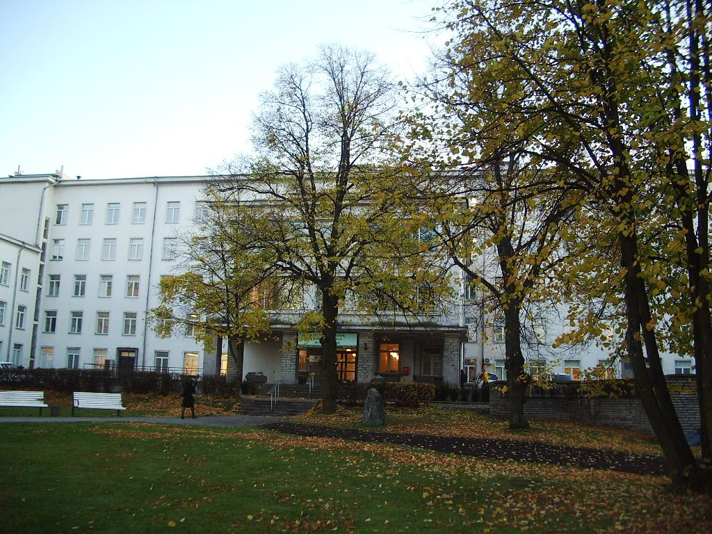 Main building of East Tallinn Central Hospital. 18 Ravi street